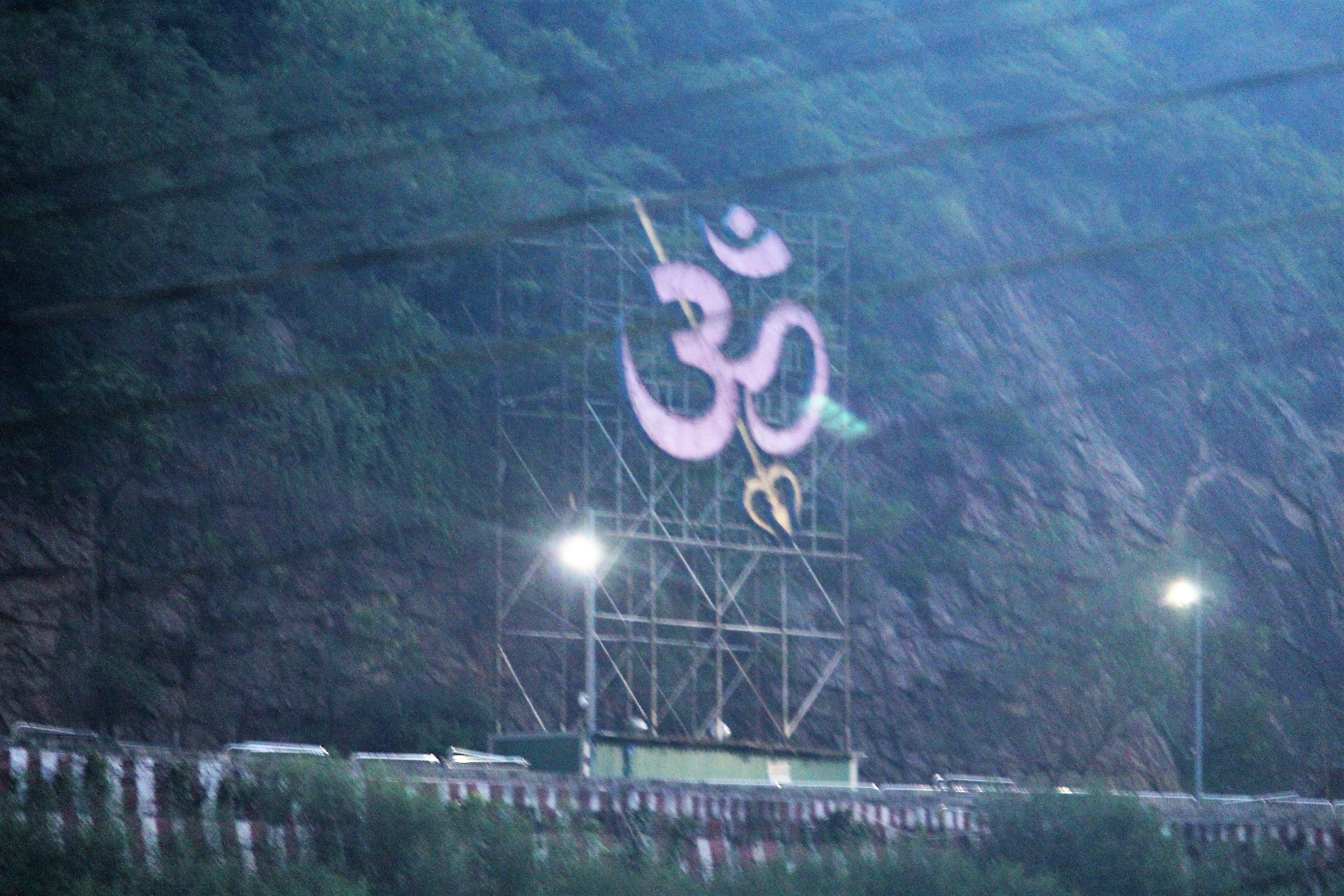 Kanaka Durga Temple is a famous Hindu Temple of Goddess Durga located in Vijayawada, Andhra Pradesh. The temple is located on the Indrakeeladri hill, on the banks of Krishna River.